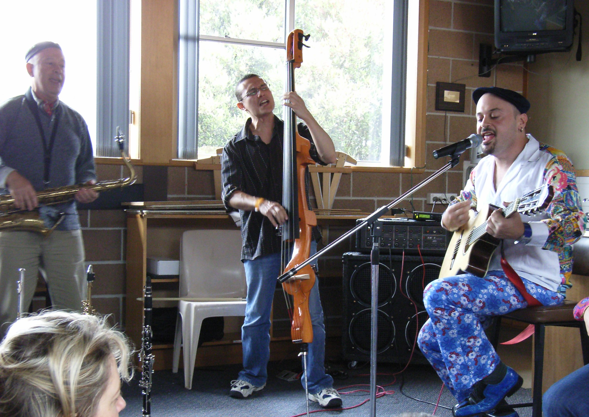 Members of Monsieur Camembert (Australian music group) giving a workshop at the 2005 at Cygnet Folk Festival (2) (Tony Rees photograph)